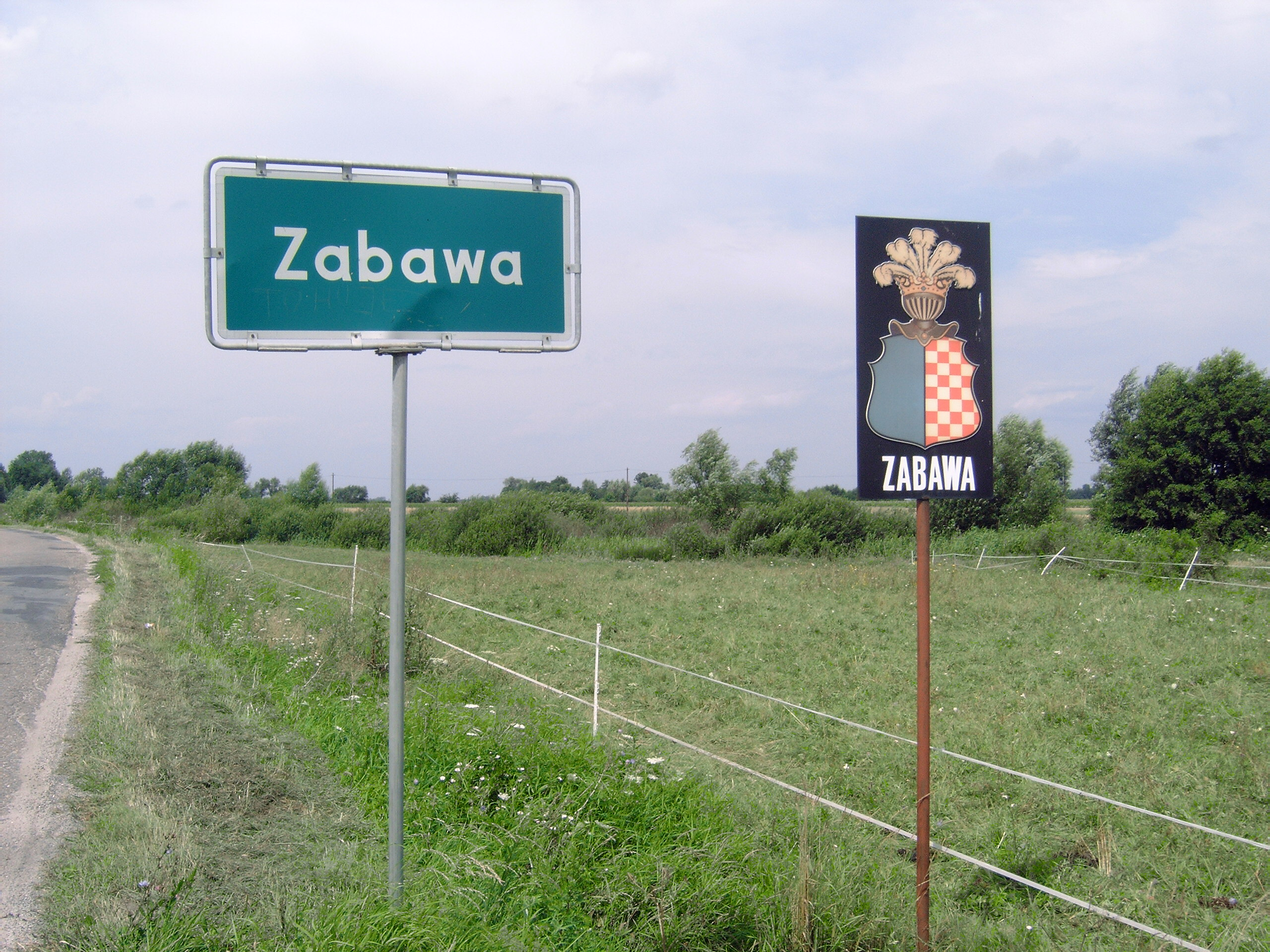 Zabawa (powiat Tarnów)